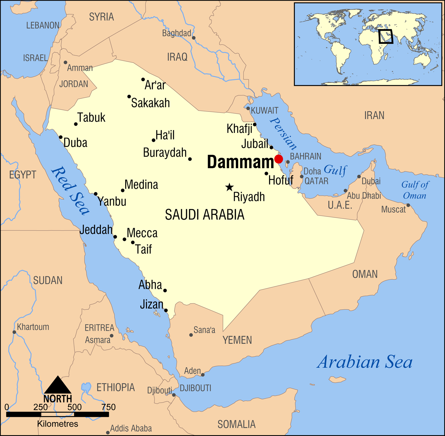 Locator map of Dammam, Saudi Arabia. Created by NormanEinstein, April 20, 2007.